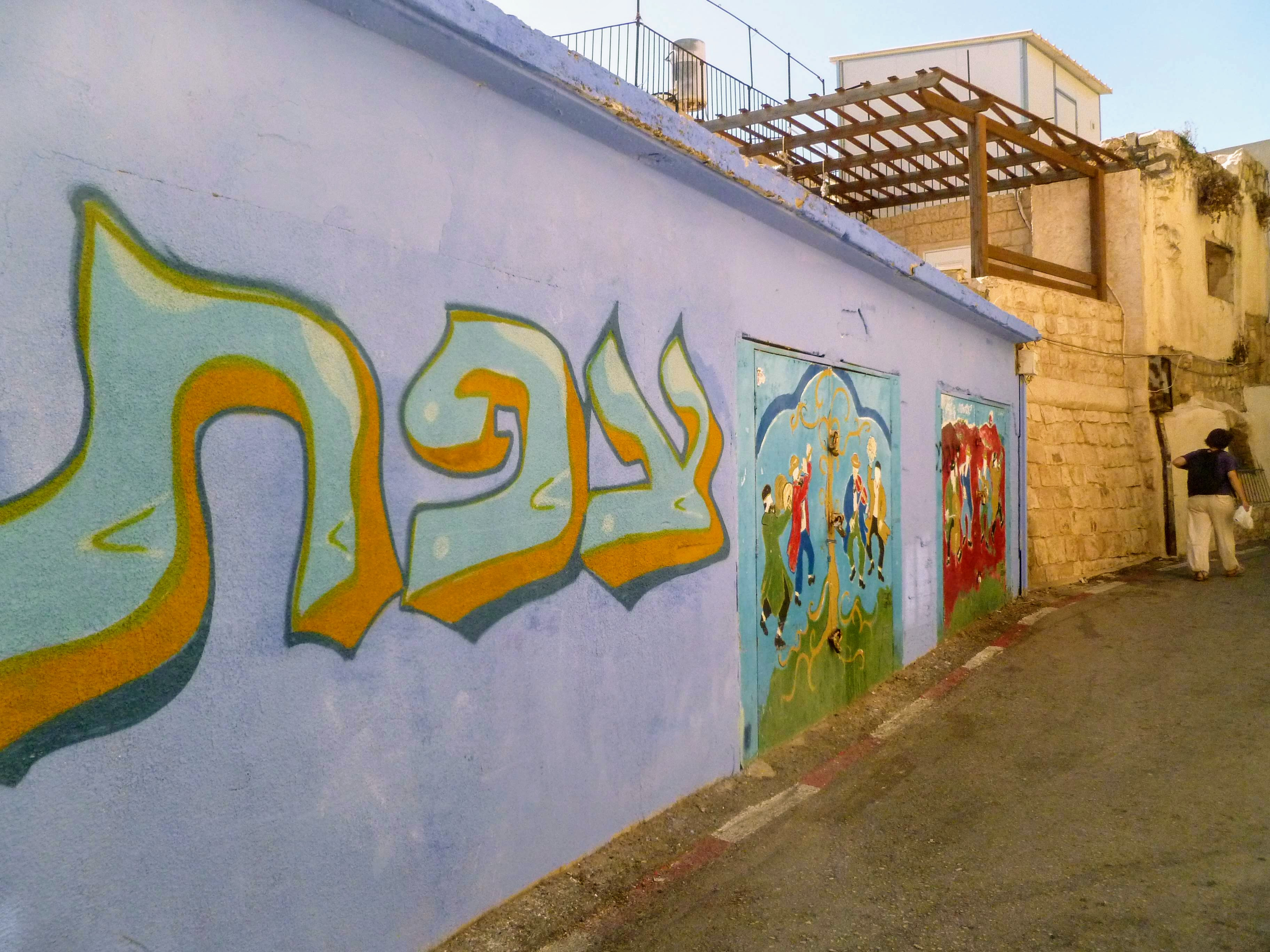 Write on the wall in Sefad, Israel